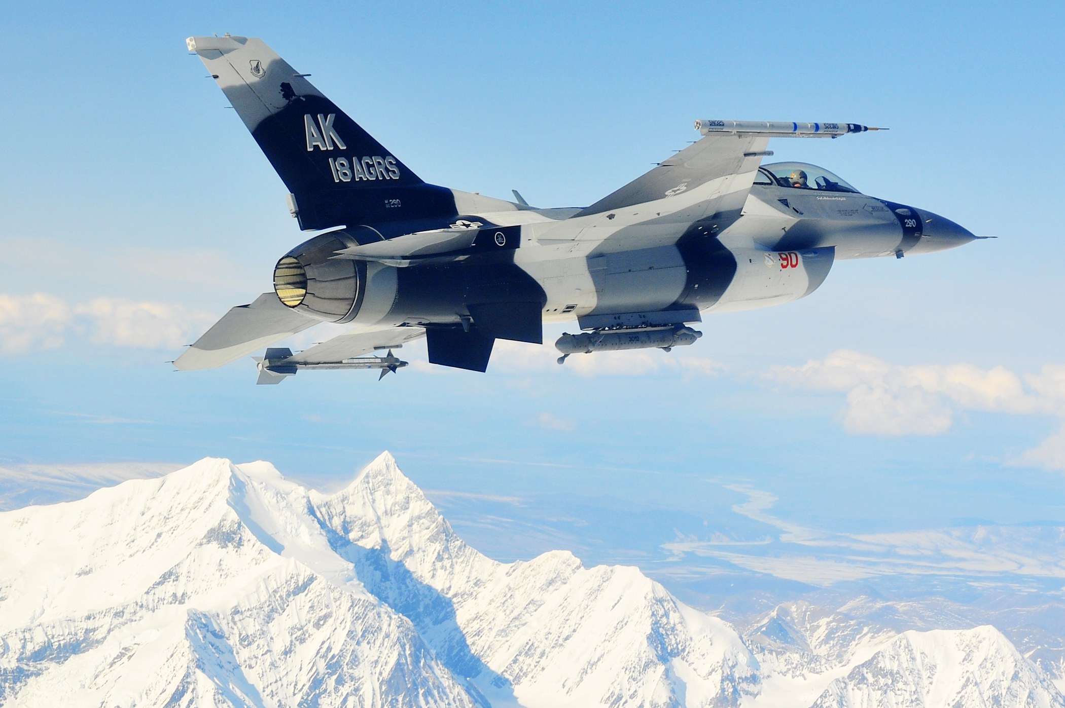 An F-16 Fighting Falcon from the 18th Aggressor Squadron at Eielson Air Force Base, Alaska, soars over the Alaska Range April 20, 2010, during RED FLAG-Alaska 10-2. Aggressor pilots are trained to act as opposing forces in exercises like Red Flag to better prepare Air Force pilots for air combat. (U.S. Air Force photo/Staff Sgt. Christopher Boitz)